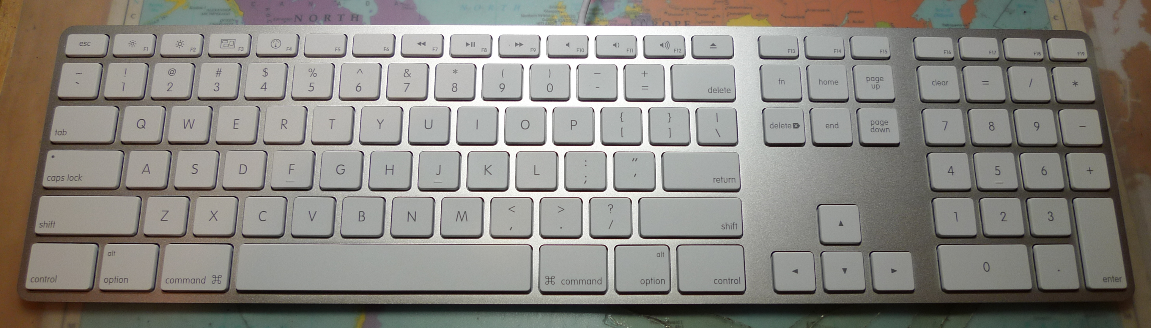 The Apple Keyboard with numeric keypad.